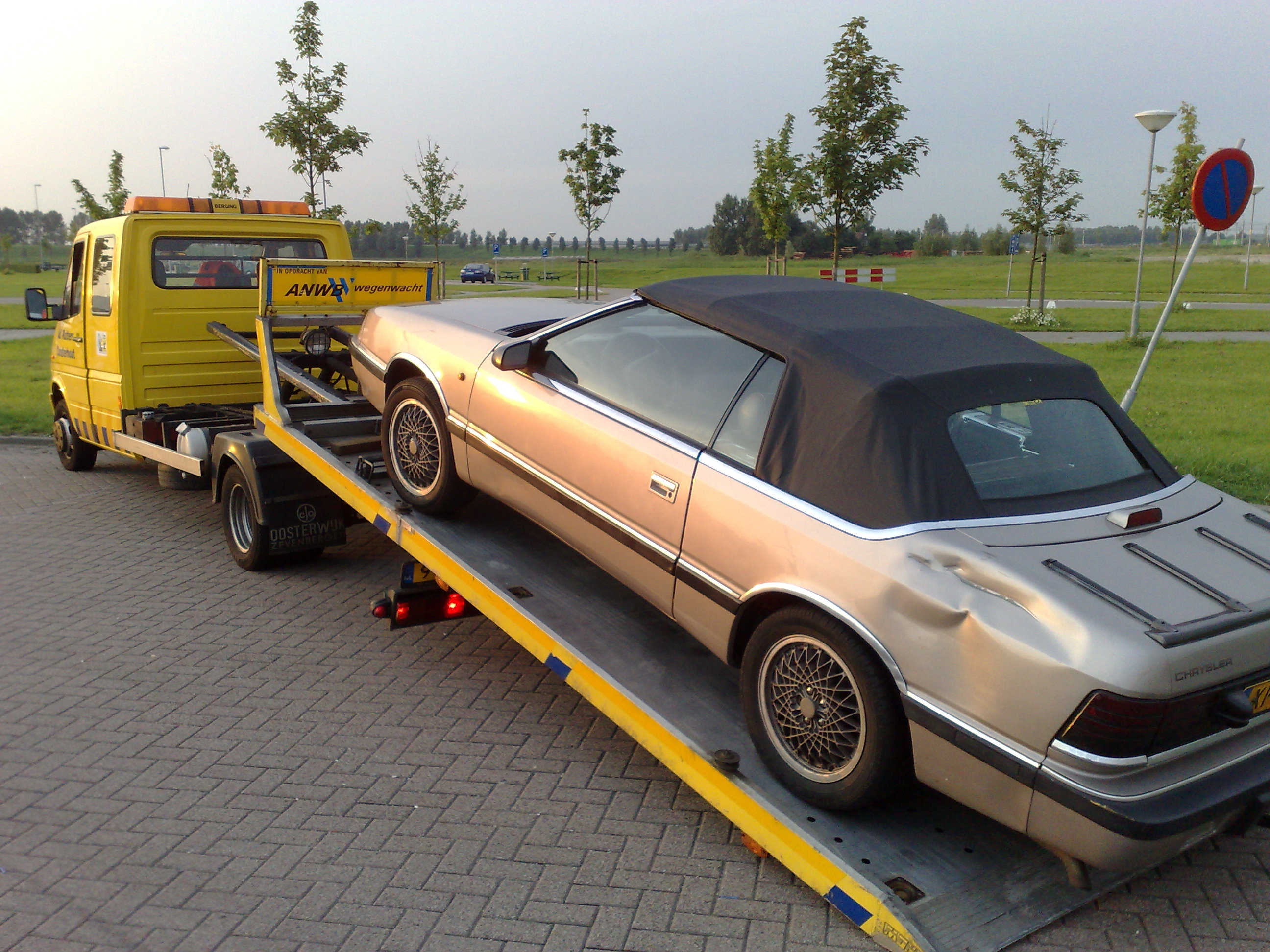 Tow truck tows a car after a collision with a truck.